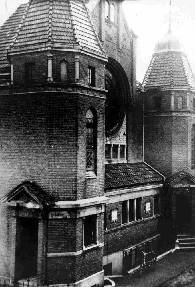 Synagogue of Emden in Germany, destroyed by the nazis during the Kristal Nacht in 1938